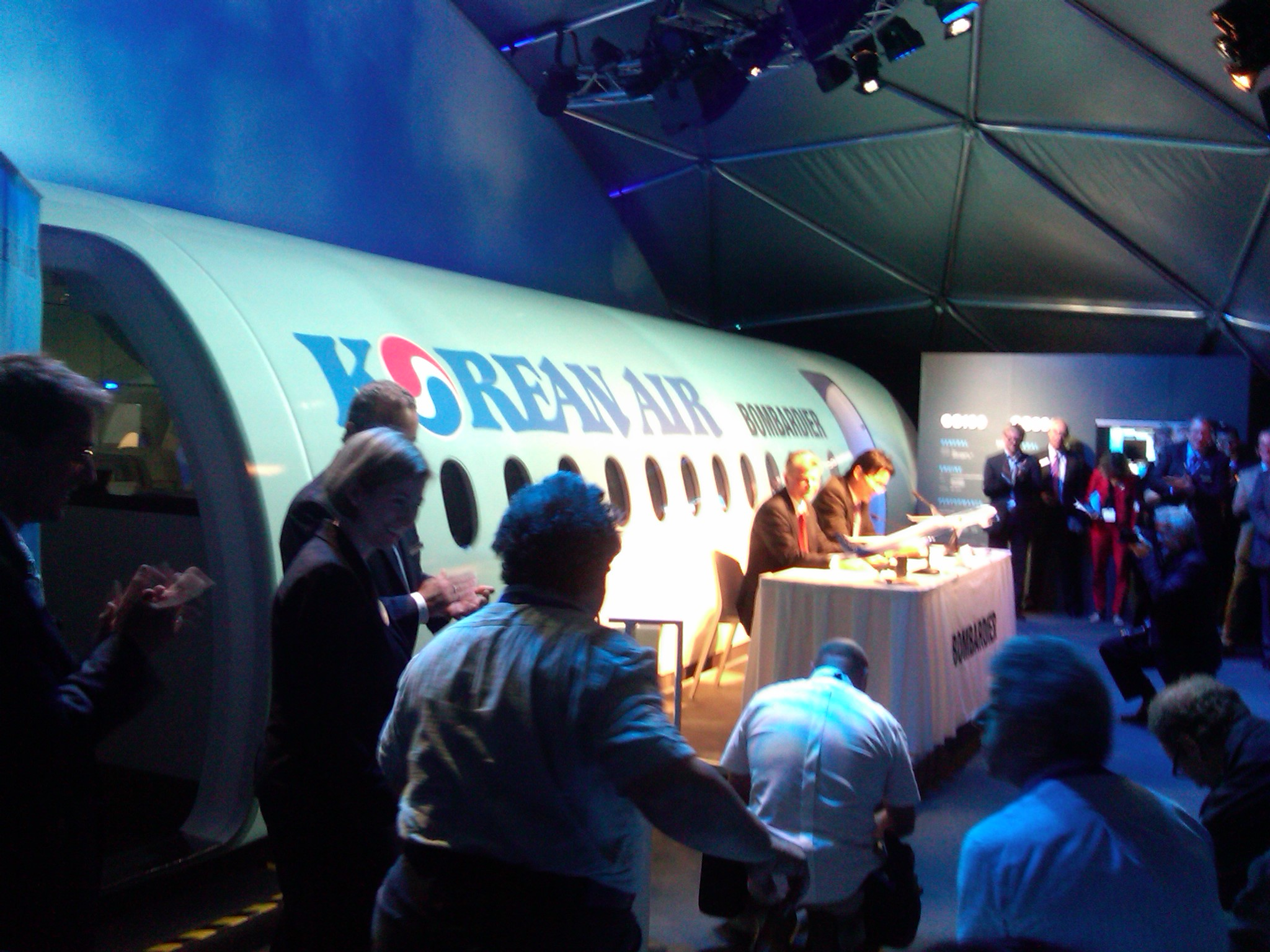 Bombardier Aerospace sells up to 30 CSeries to Asian launch customer Korean Air